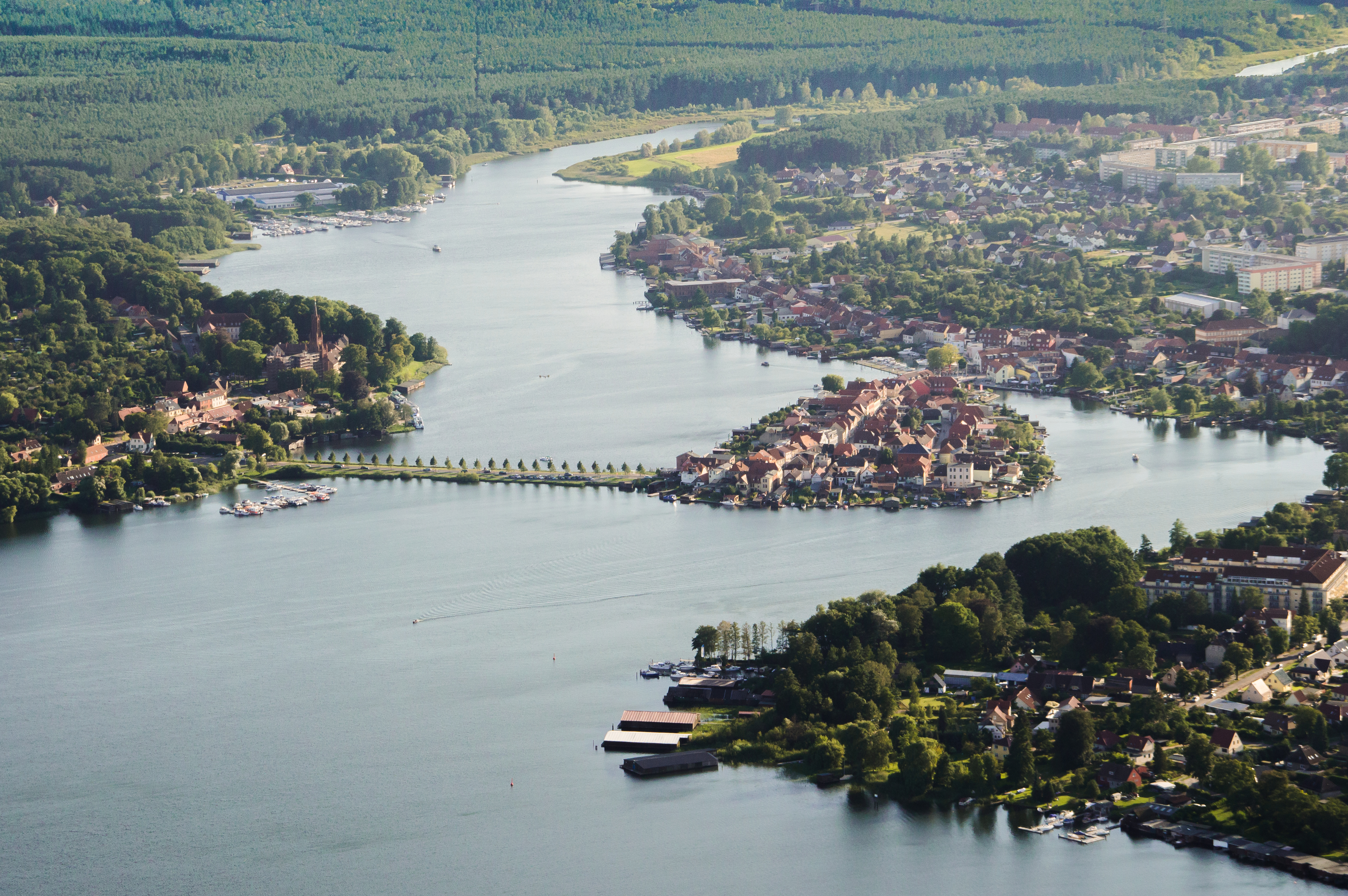 Malchow und der Malchower See The making of this document was supported by the Community-Budget of Wikimedia Germany.